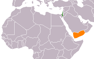 Based on File:BlankMap-FlatWorld6.svg